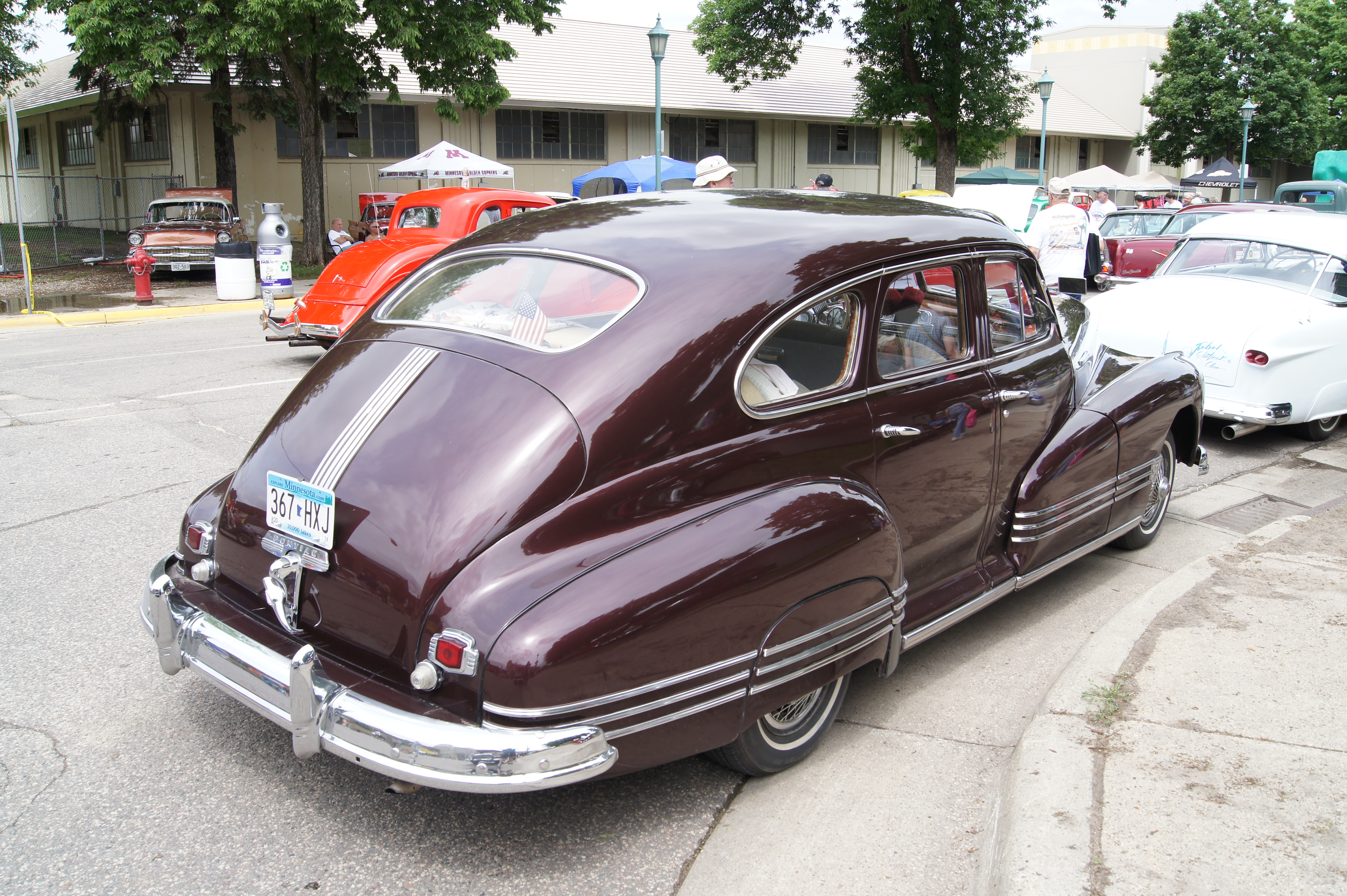 MSRA “BACK TO THE 50′s” 40th ANNIVERSARY June 21-23, 2013 State Fairgrounds St. Paul Minnesota More Car Pictures